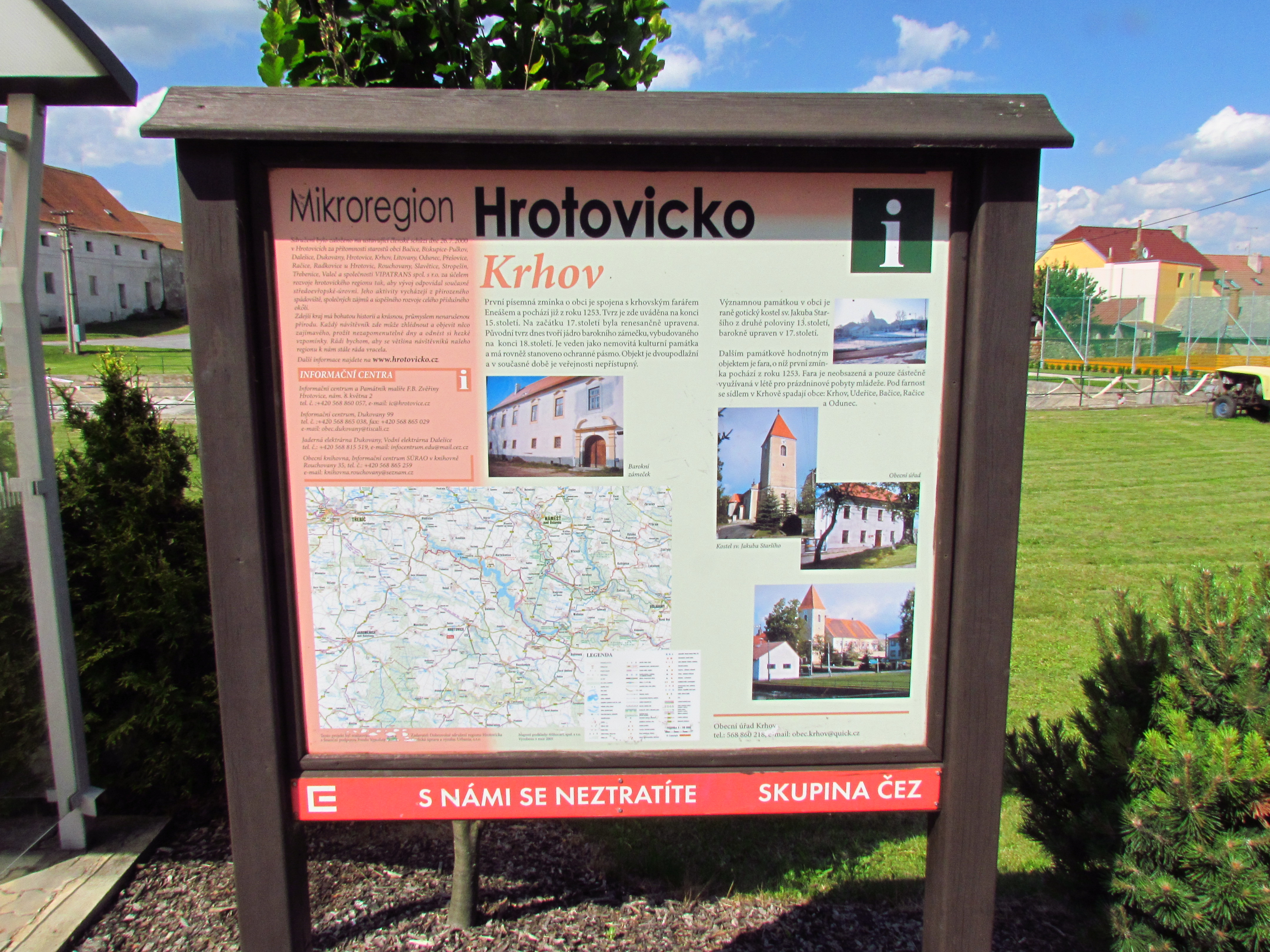 Board of Mikroregion Hrotovicko in Krhov, Třebíč District.